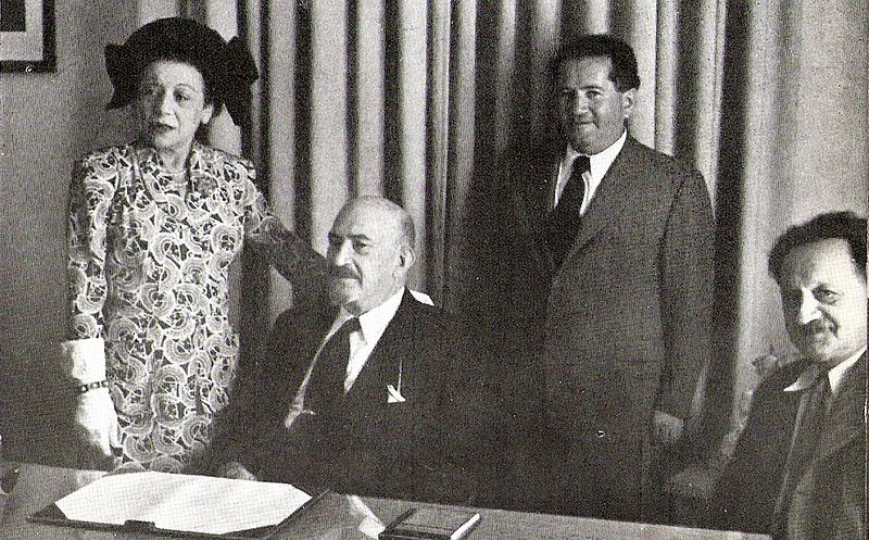 L-R: Vera Weizmann, Chaim Weizmann, Ze'ev Sherf (standing), Yosef Sprinzak.